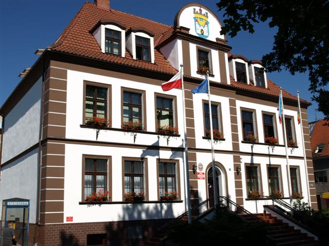 Ratusz w ZŁOCIEŃCU